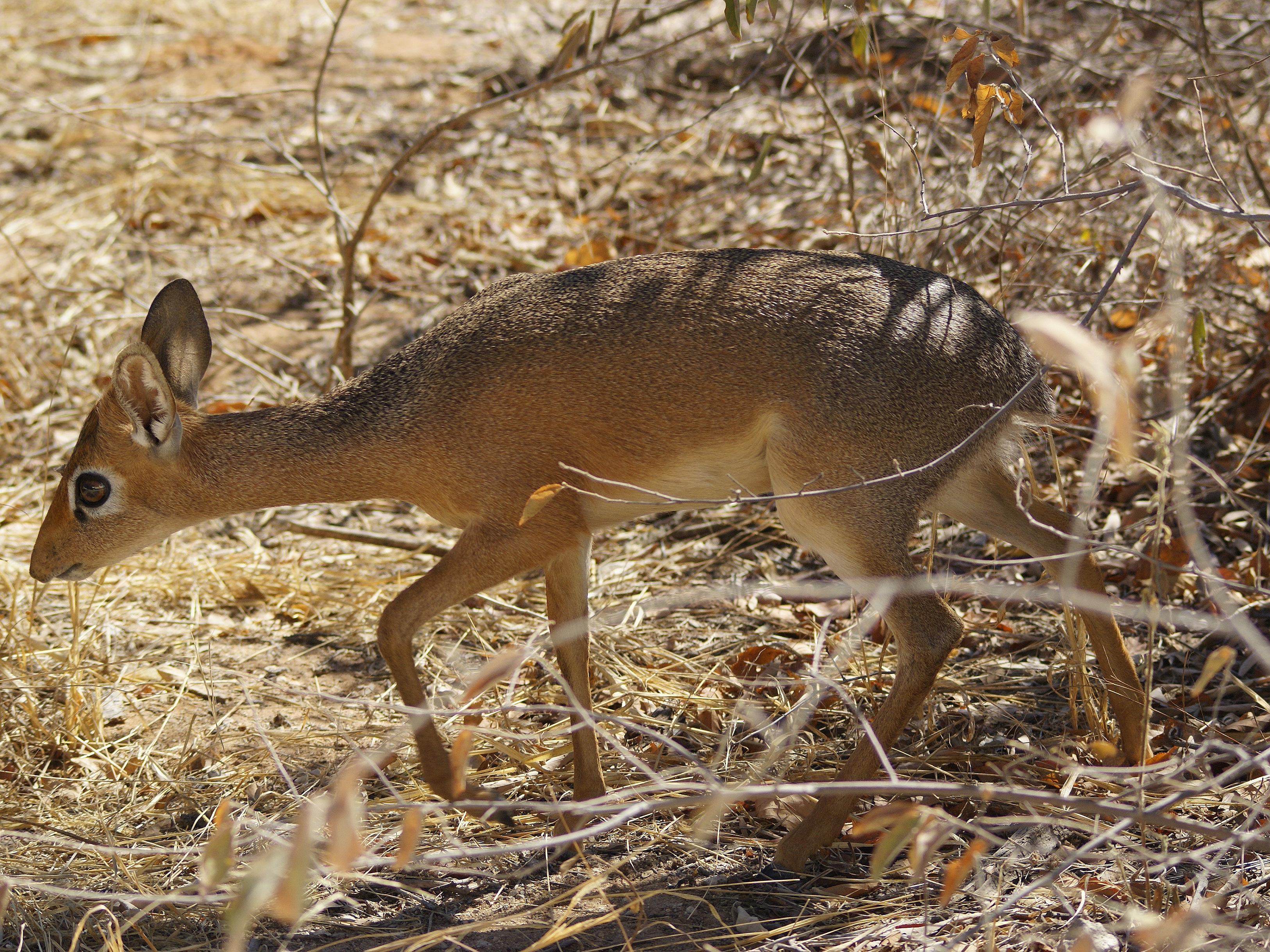 A Damara Dik-dik at Dik-dik drive, Etosha, Namibia